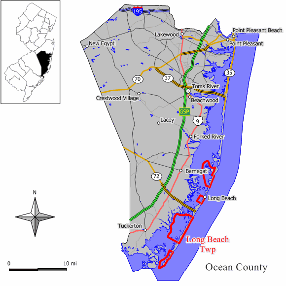 Source: Jim Irwin Original work by Jim Irwin, December 2005.